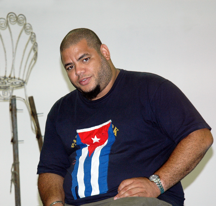 Kcho in Attersee, July 2005